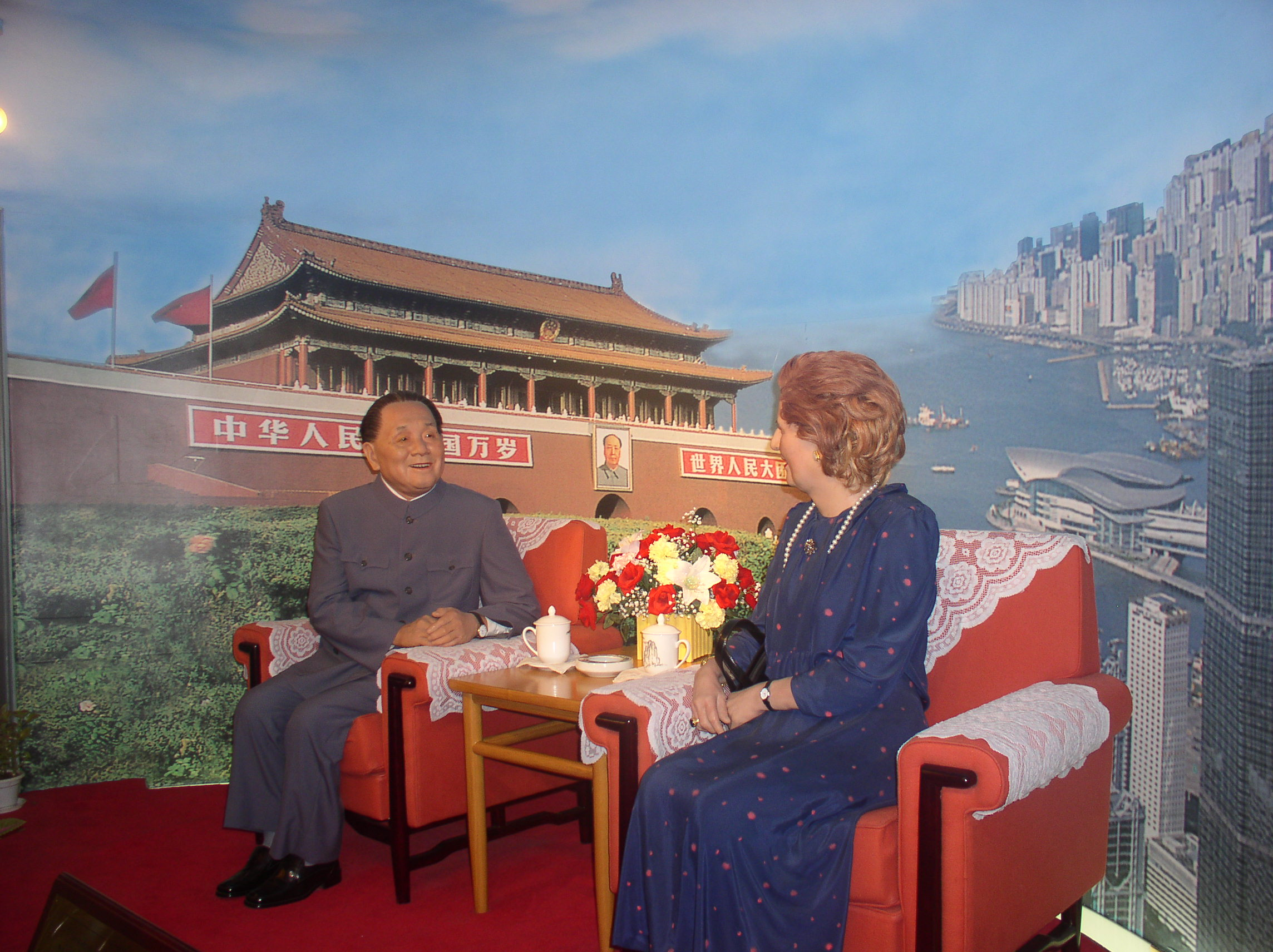 Reconstruction of the important meeting between Deng Xiaoping and Margaret Thatcher in Beijing on 24 September 1984 with talks about the future of Hong Kong - at the visitors platform of the Diwang Dasha in Shenzhen